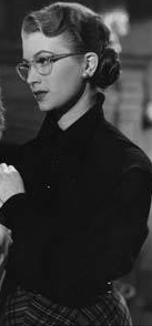 Mirtha Torres- actriz